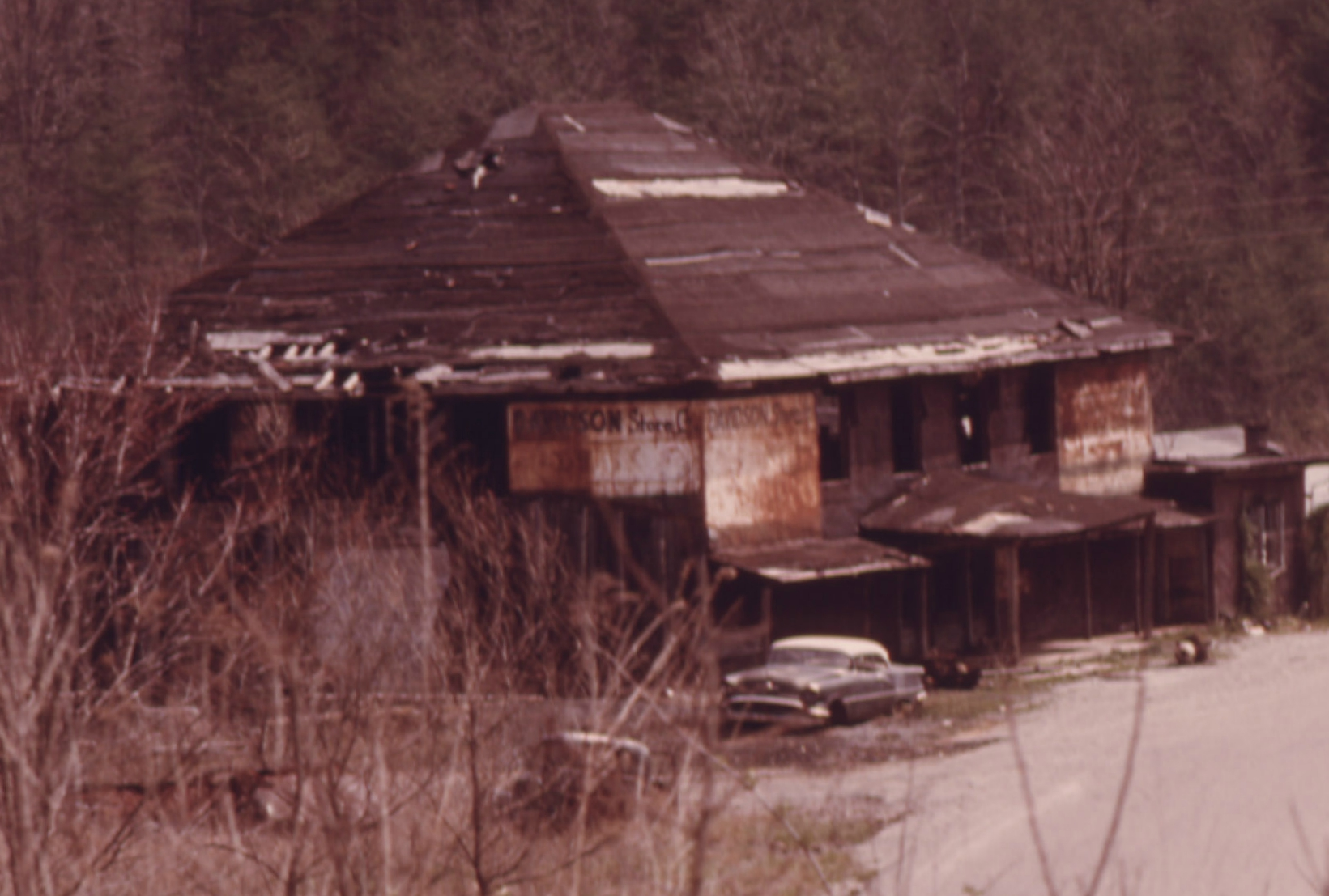 The Old Coal Company Store — which was gutted by fire, in the unincorporated community of Wilder near Cookeville in Fentress County, Tennessee. Cropped from File:Old coal company store wilder tennessee 1974.jpg